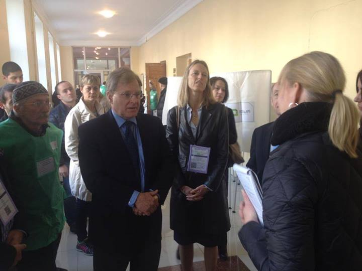 Georgian Presidential election 2013. Ambassador Norland’s Election Day Comment to the Media